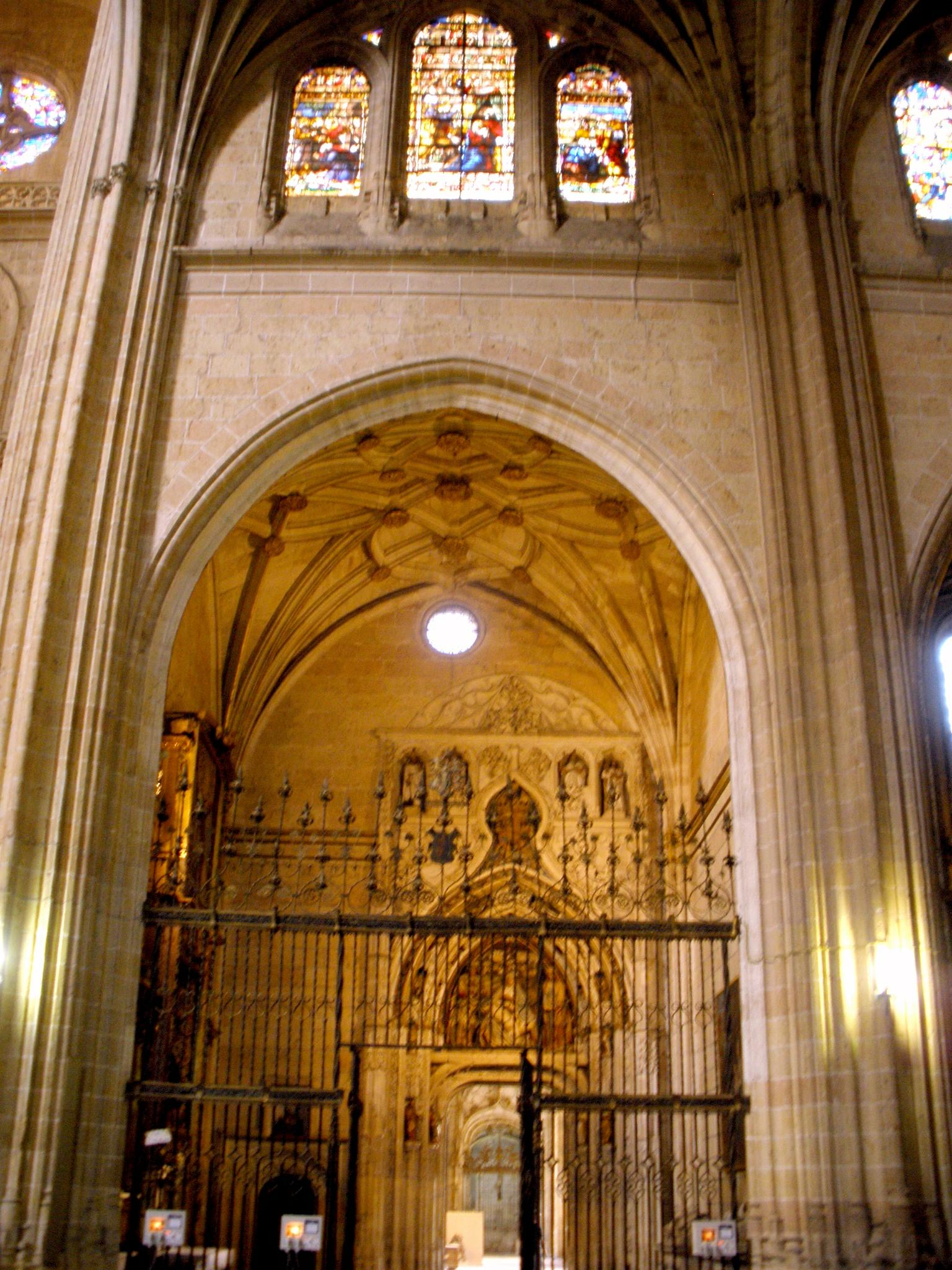 Capilla del Cristo del Consuelo, Catedral de Segovia (España). Segovia Cathedral Native nameCatedral de Santa María de SegoviaLocationSegovia , (Spain)Coordinates40° 57′ 00.65″ N, 4° 07′ 32.24″ W EstablishedMiddle AgeWeb page control : Q1499912 VIAF: 151939123 ISNI: 0000 0001 0672 8869 LCCN: n81124924 NLA: 36562756 BIC: RI-51-0000862 WorldCat institution QS:P195,Q1499912